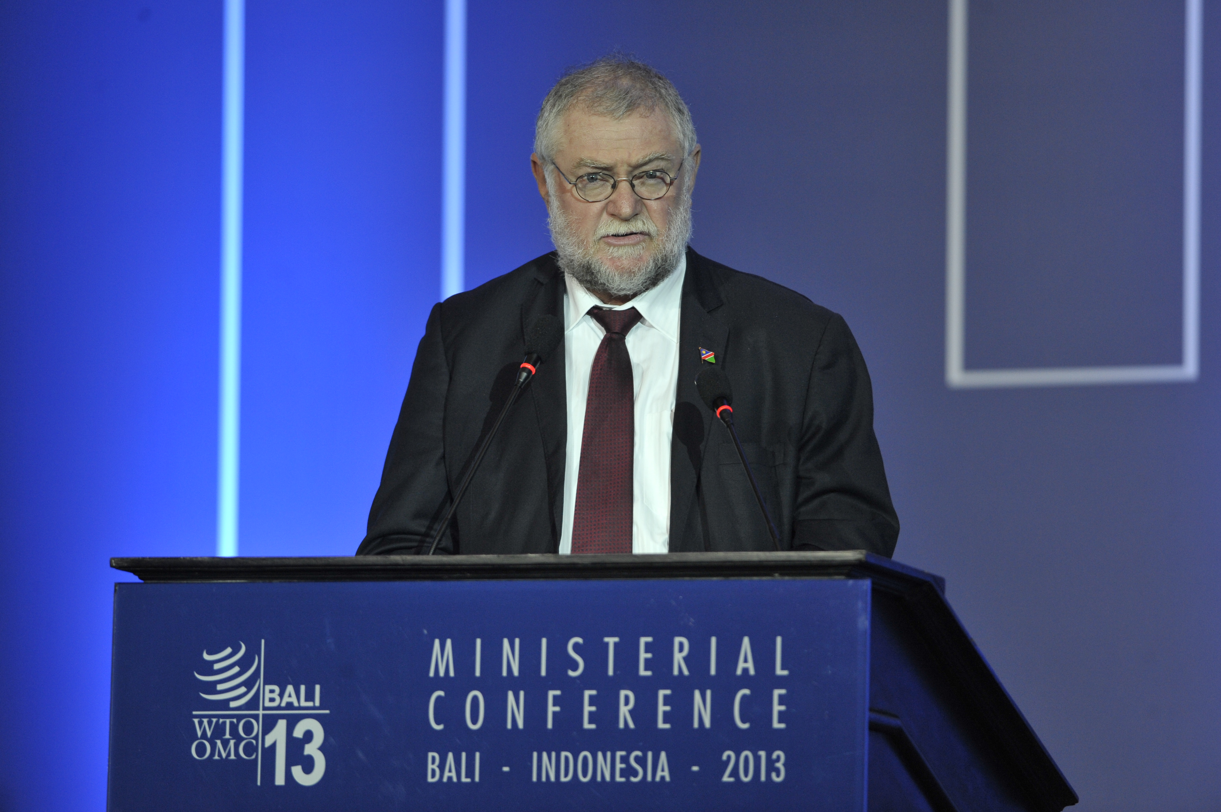 Day 3 of the WTO's Ministerial Conference, Bali, 3 December 2013. (Photos may be reproduced provided full attribution is given.)